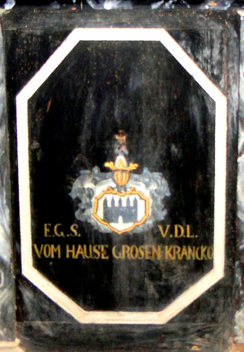 Interiors at nuns' matroneum at church in Monastery in Dobbertin, district Parchim, Mecklenburg-Vorpommern, Germany